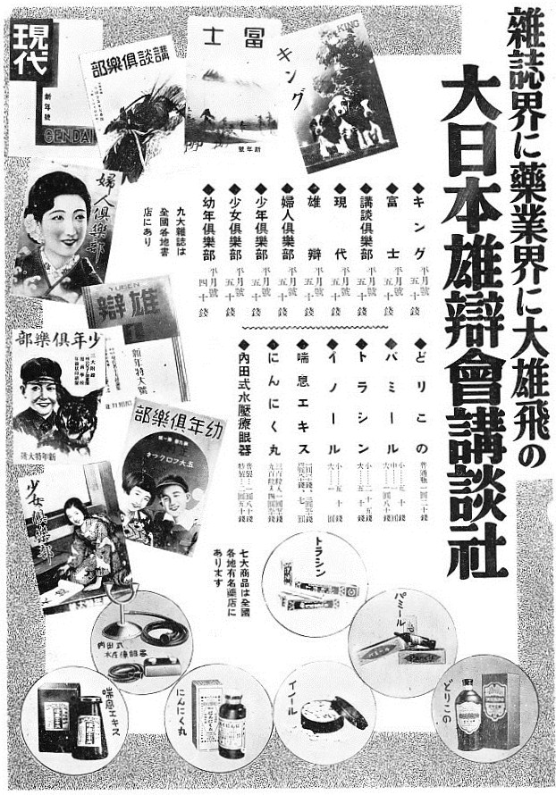 Advertisement of Kodansha in 1930s